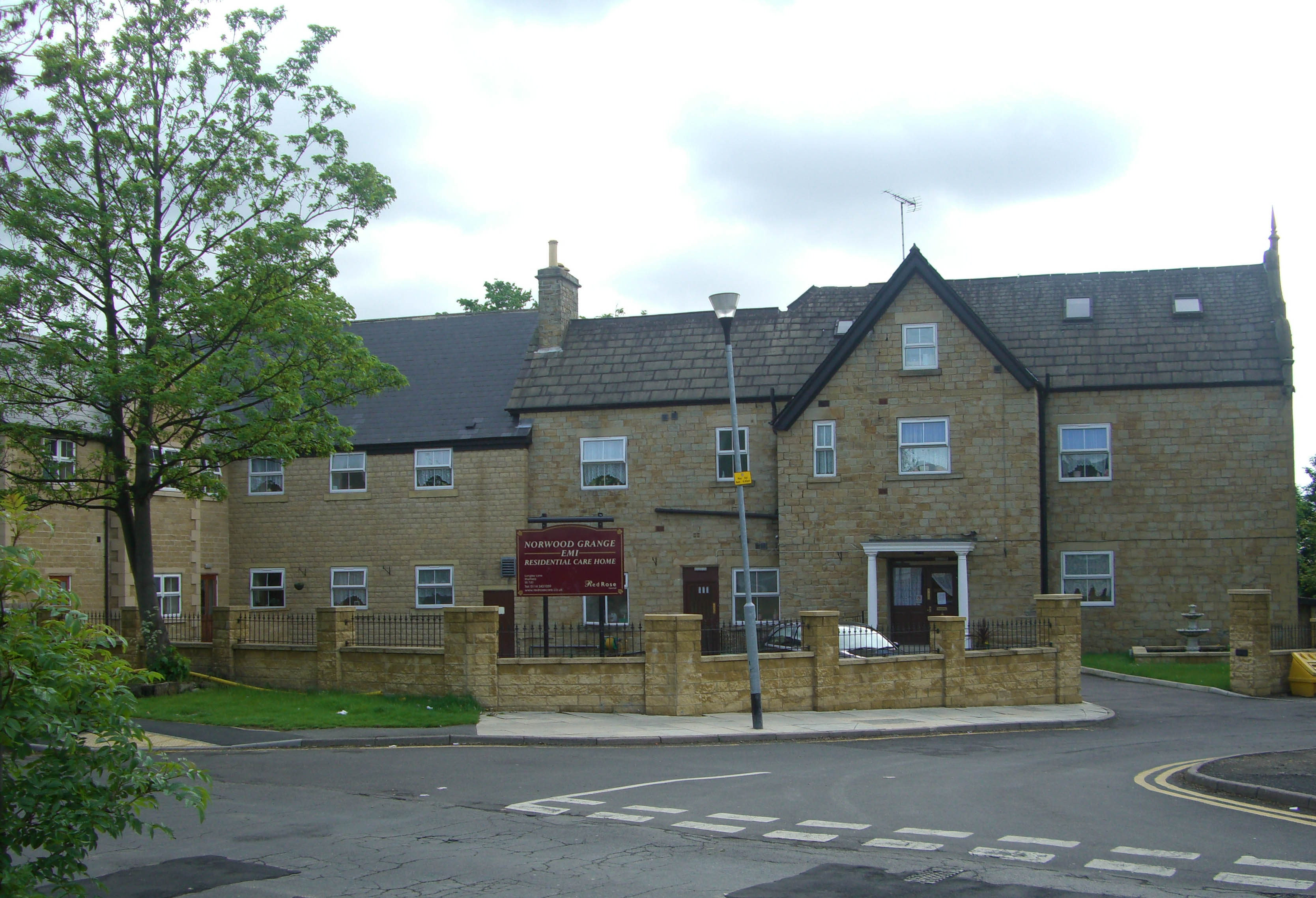 Norwood Grange Residential Care Home on Longley Lane, Longley, Sheffield, South Yorkshire.